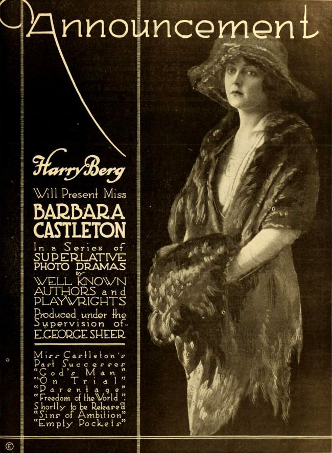 Advertisement in Moving Picture World